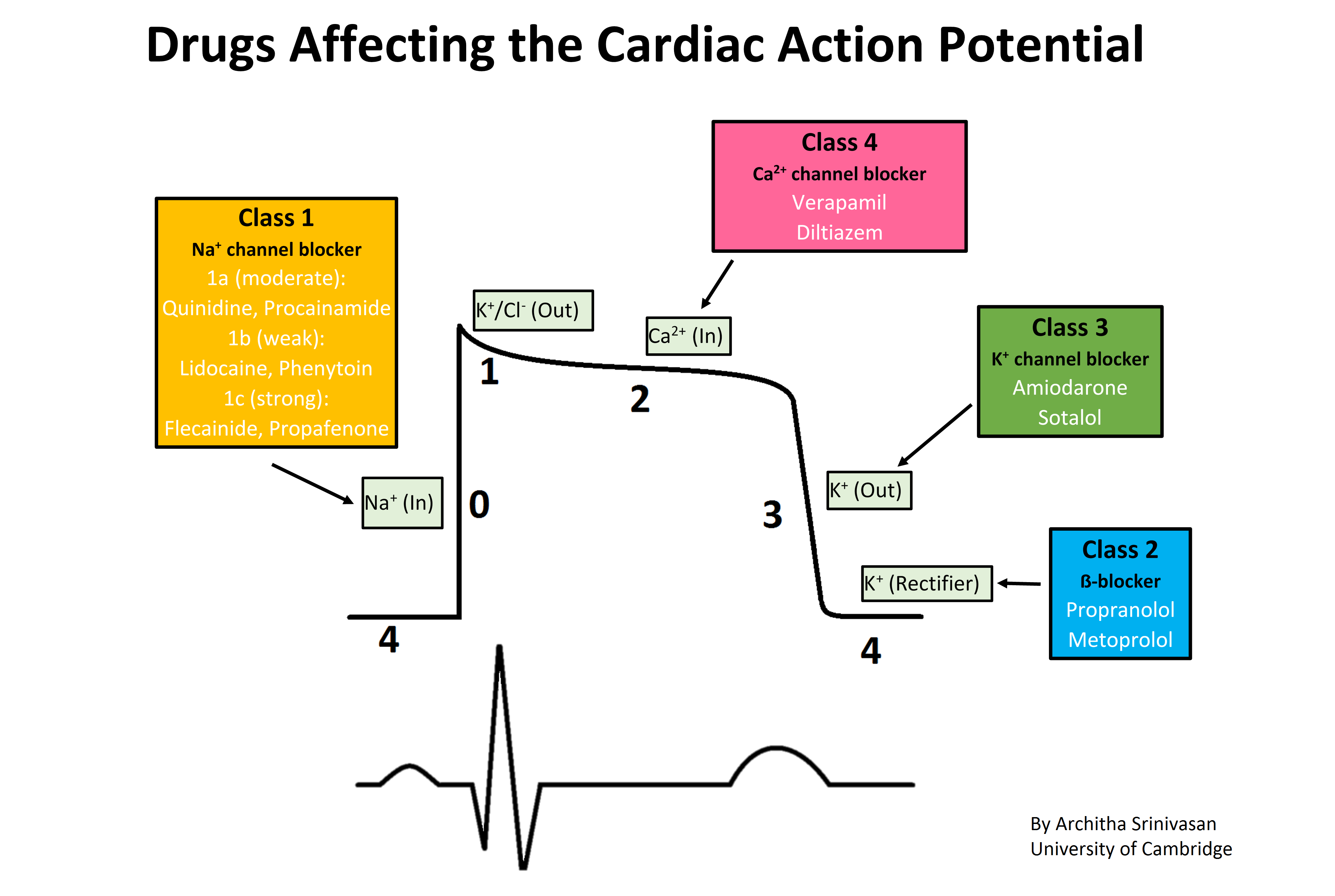 Drugs affecting the cardiac action potential